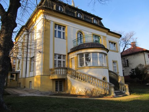 Prague-Vinohrady, house Dykova 1084/14 Česky: Dům Dykova 14